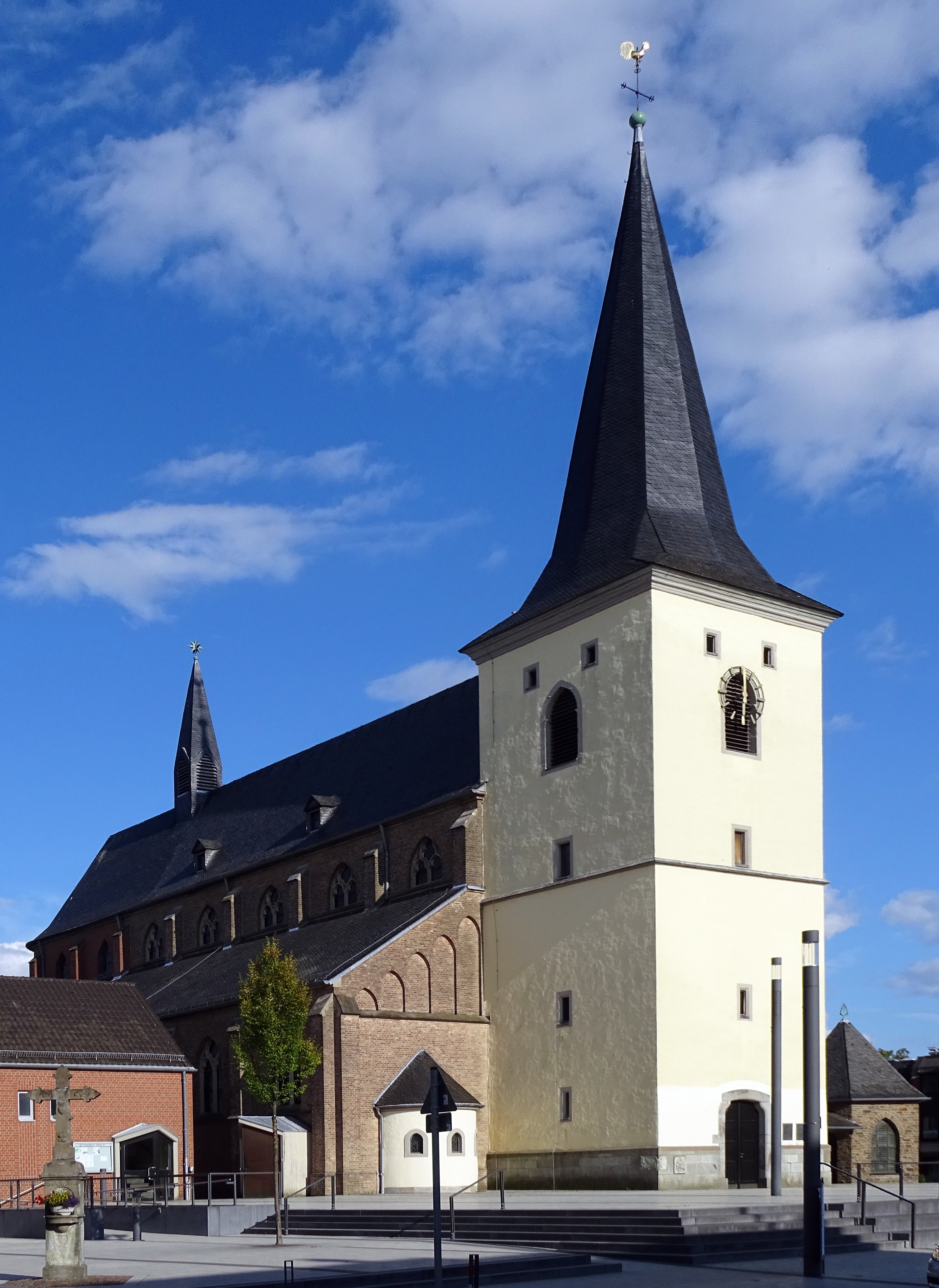 Catholic parish church of St. John the Baptist in Meckenheim, Hauptstraße 86: view from the Adolf-Kolping-Straße.